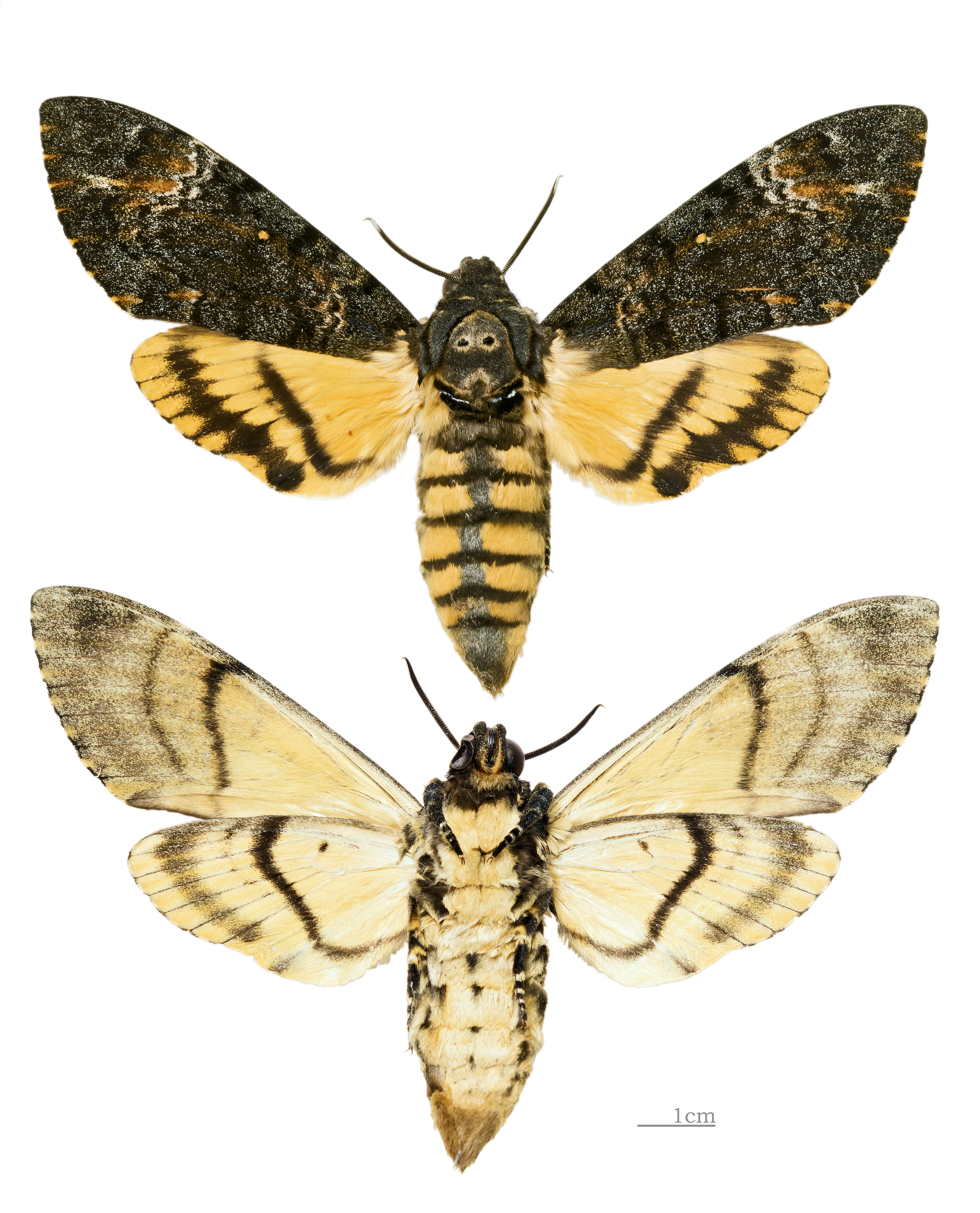 Acherontia styx medusa - Two views of same specimen Collection of the Mathematician Laurent Schwartz